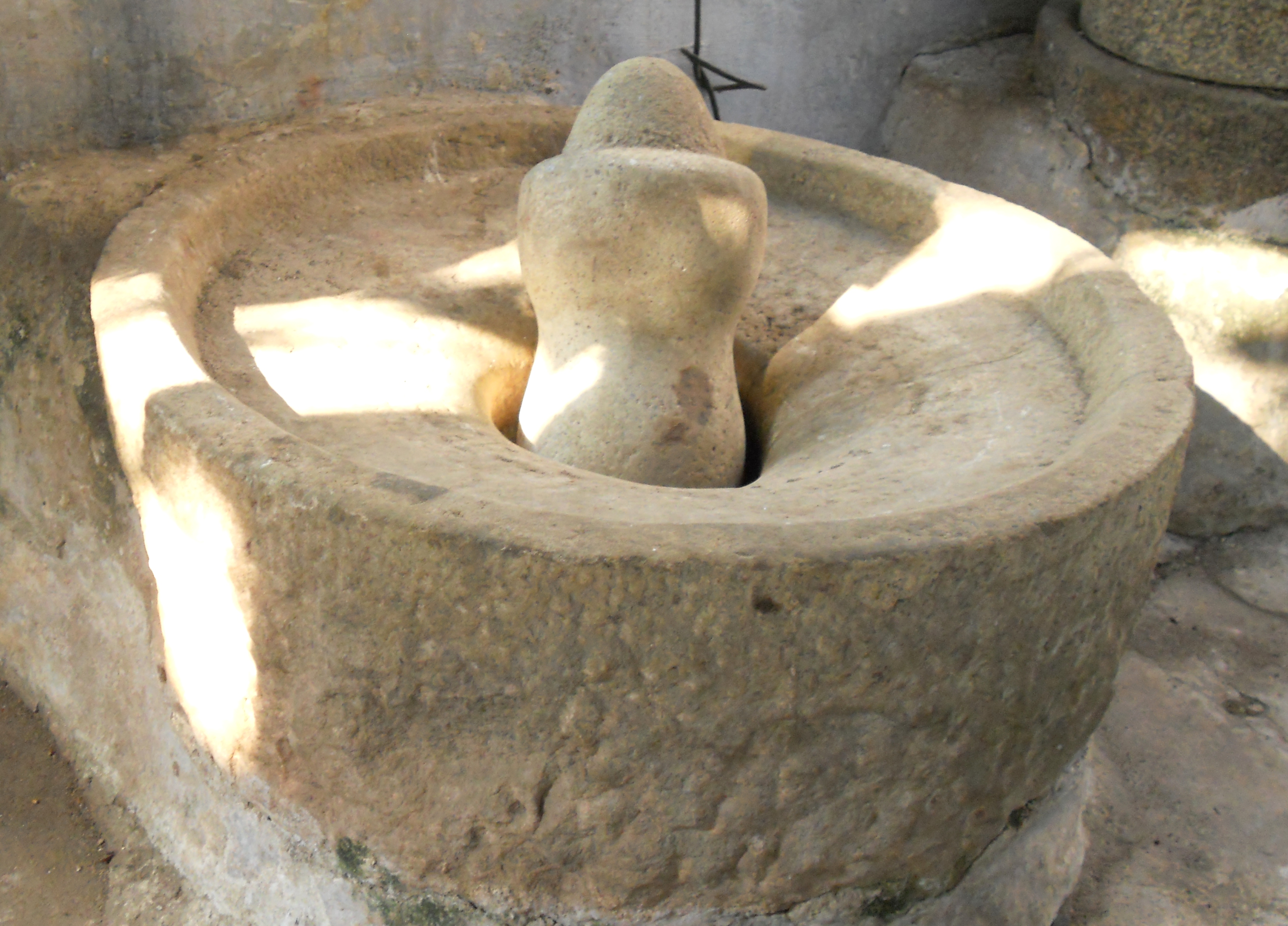 Indian metate usually used to grind rice for idali and dosa